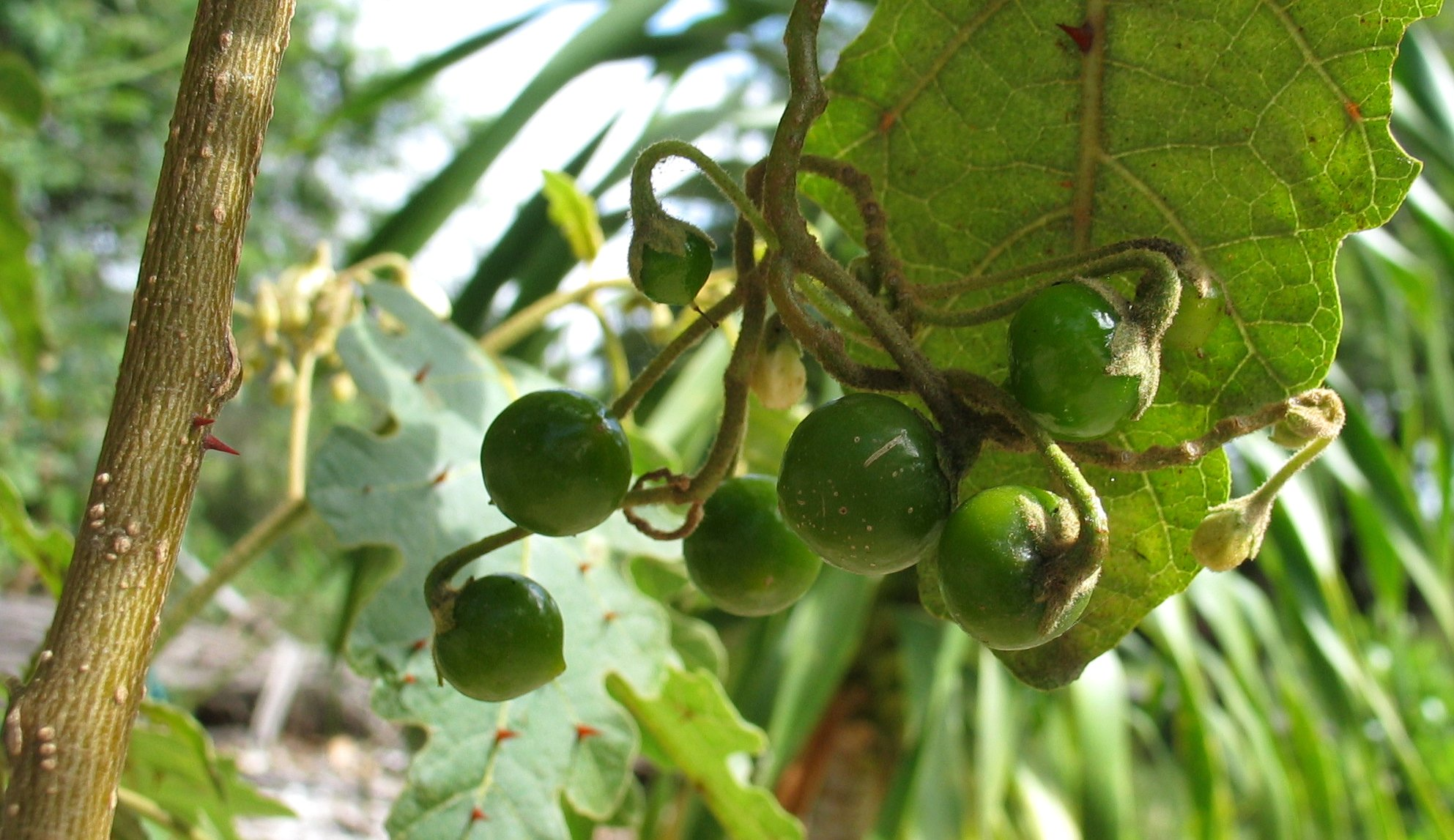 Pōpolo kū mai Solanaceae Endemic to the Hawaiian Islands Endangered Hawaiʻi Island (Cultivated) Green fruits.